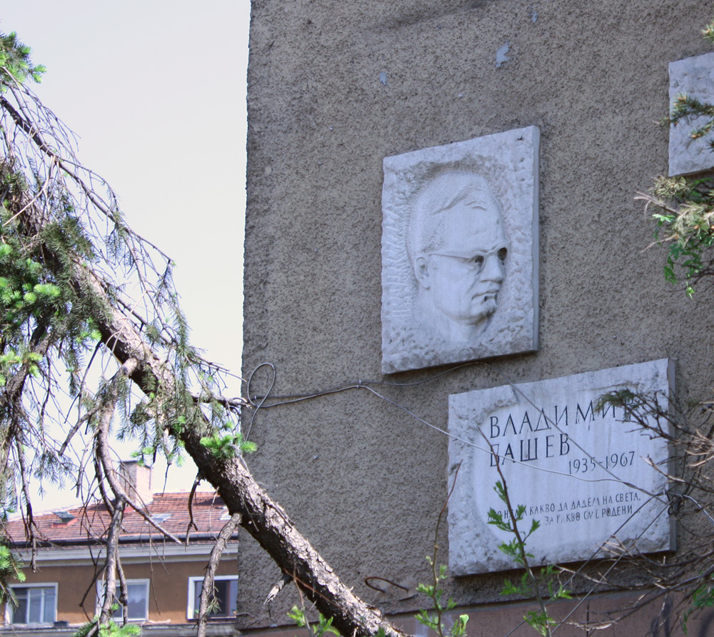 Vladimir Bashev memorial plate in Sofia